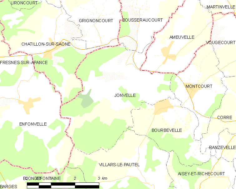 Map of French municipality